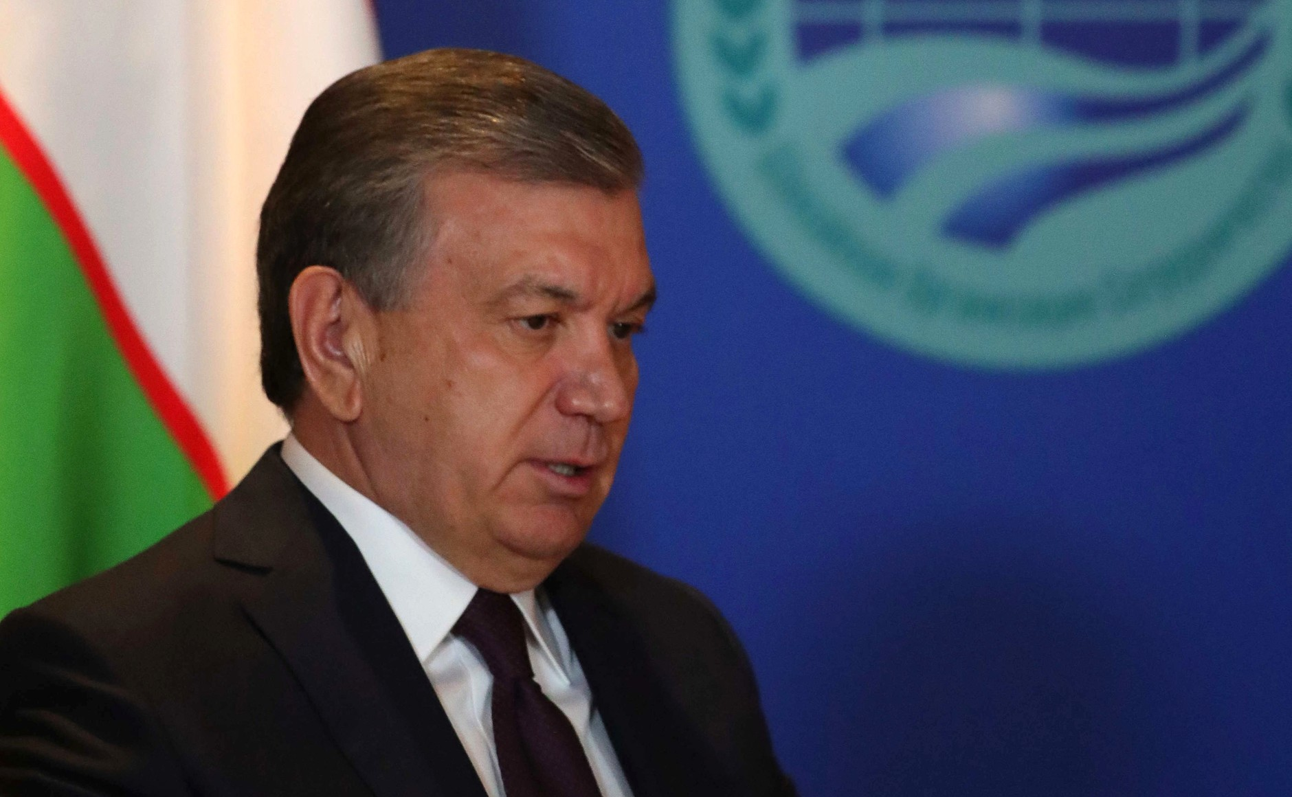 Vladimir Putin met with President of Uzbekistan Shavkat Mirziyoyev in Qingdao.